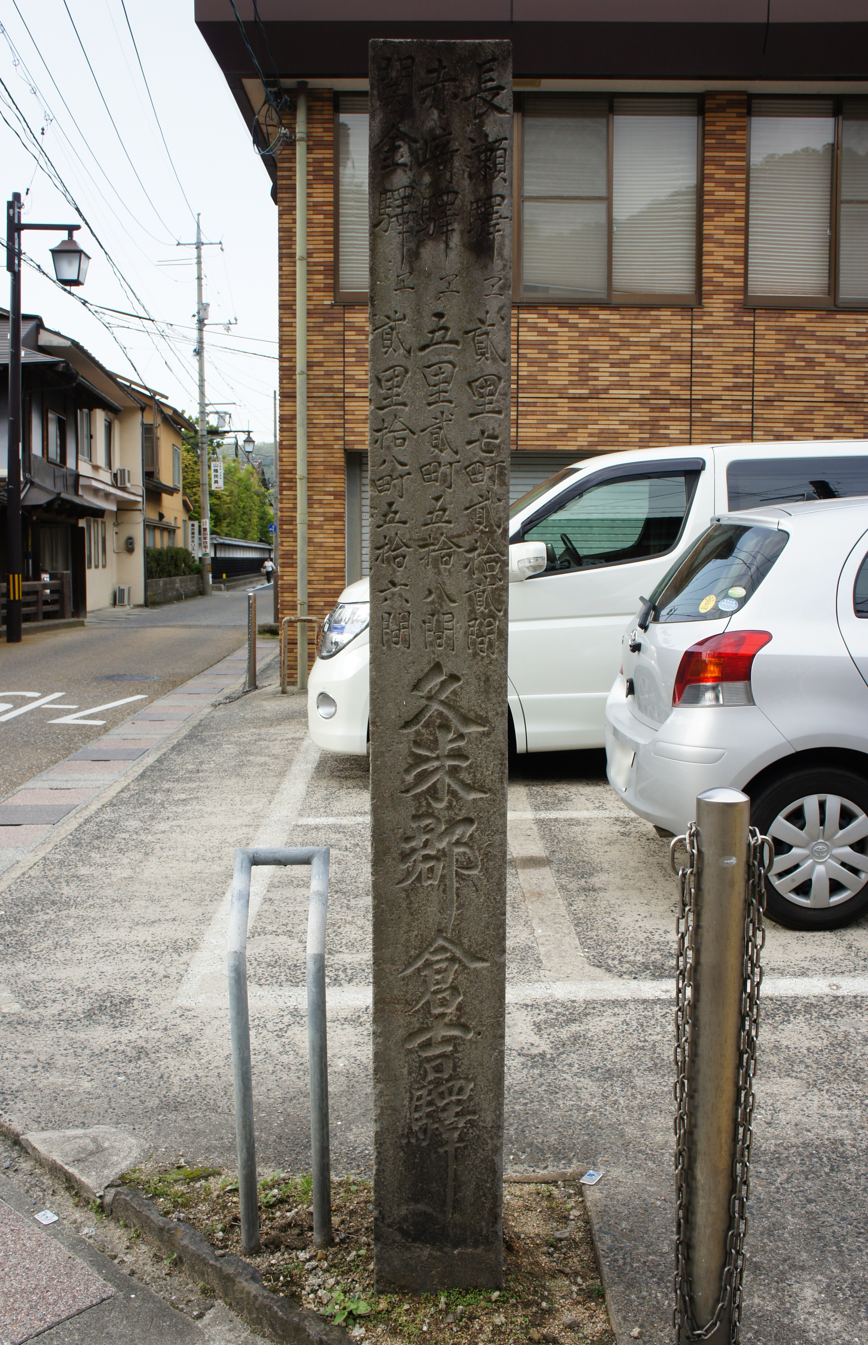 Stone monument of "Kume-Gun, Kurayoshi-Eki" (Kurayoshi, Tottori Prefecture, Japan)